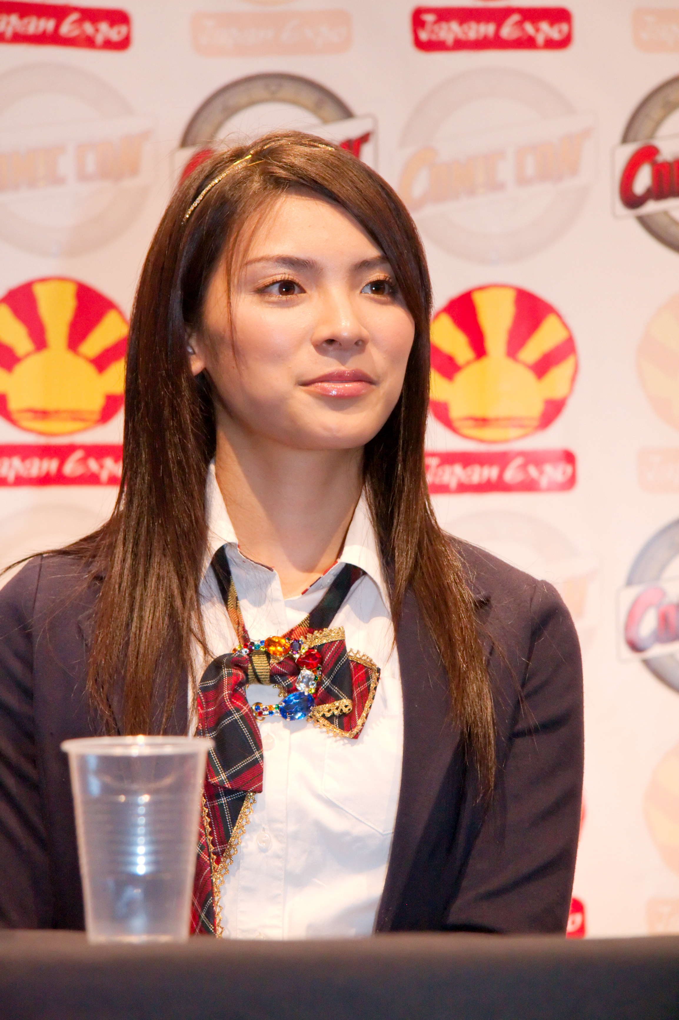 Sayaka Akimoto of AKB48 during lecture at Japan Expo 2009 (Paris, France).